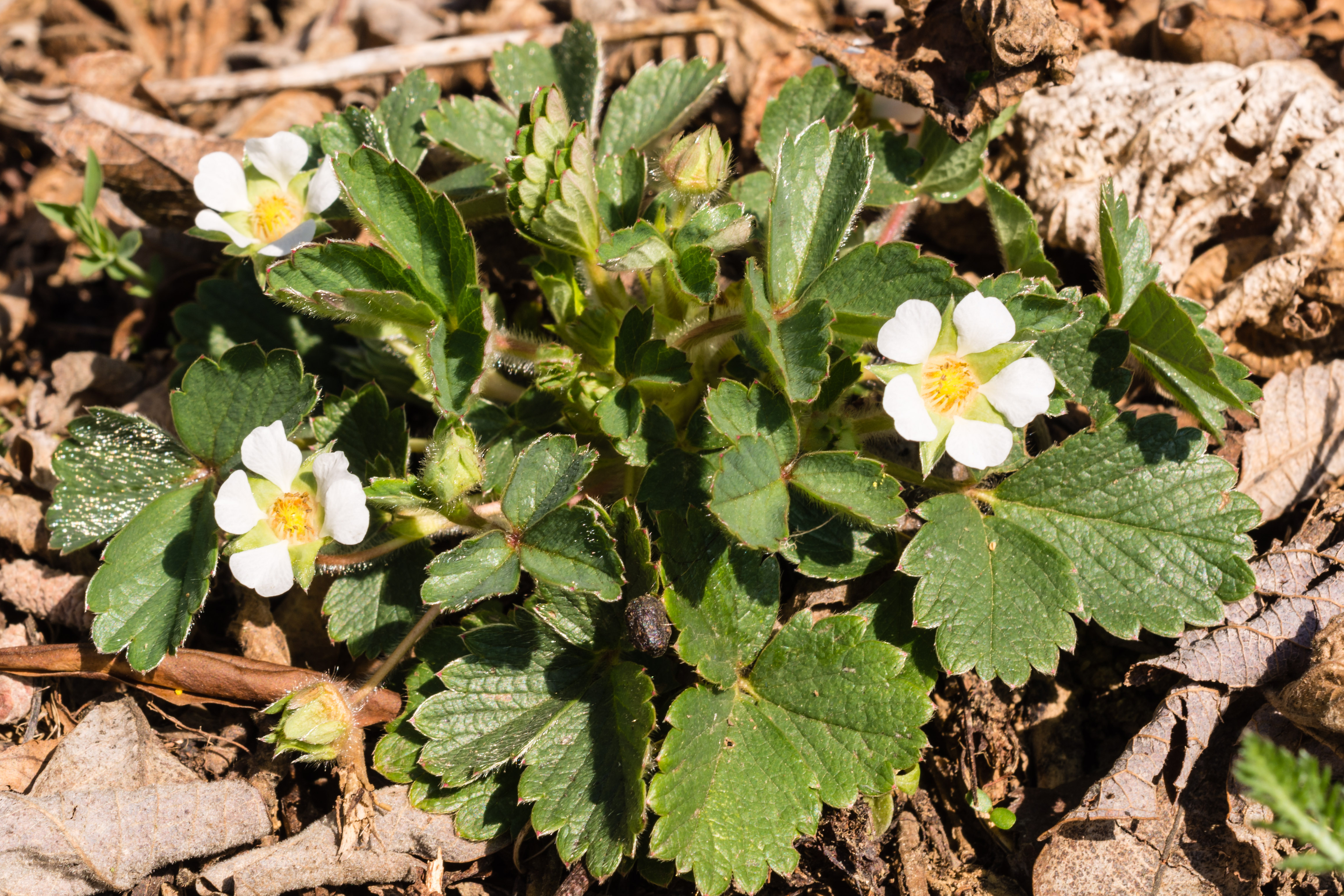 Potentilla sterilis, also called Barren strawberry, is a plant in the family of Rosaceae. In contrary to woodland strawberry (Fragaria vesca), or a cultivated strawberry it does not form fleshy friuts.